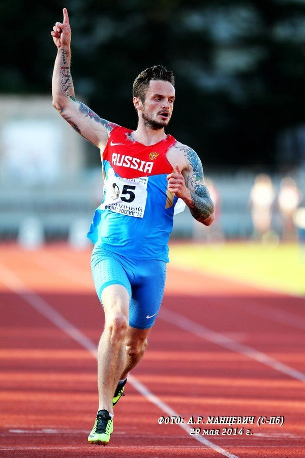 Mikhail Idrisov